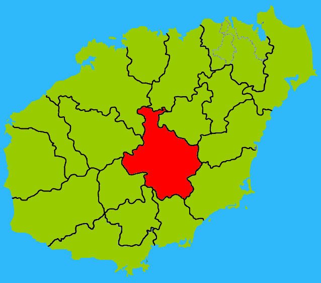 Hainan counties - Qiongzhong Li and Miao Autonomous County